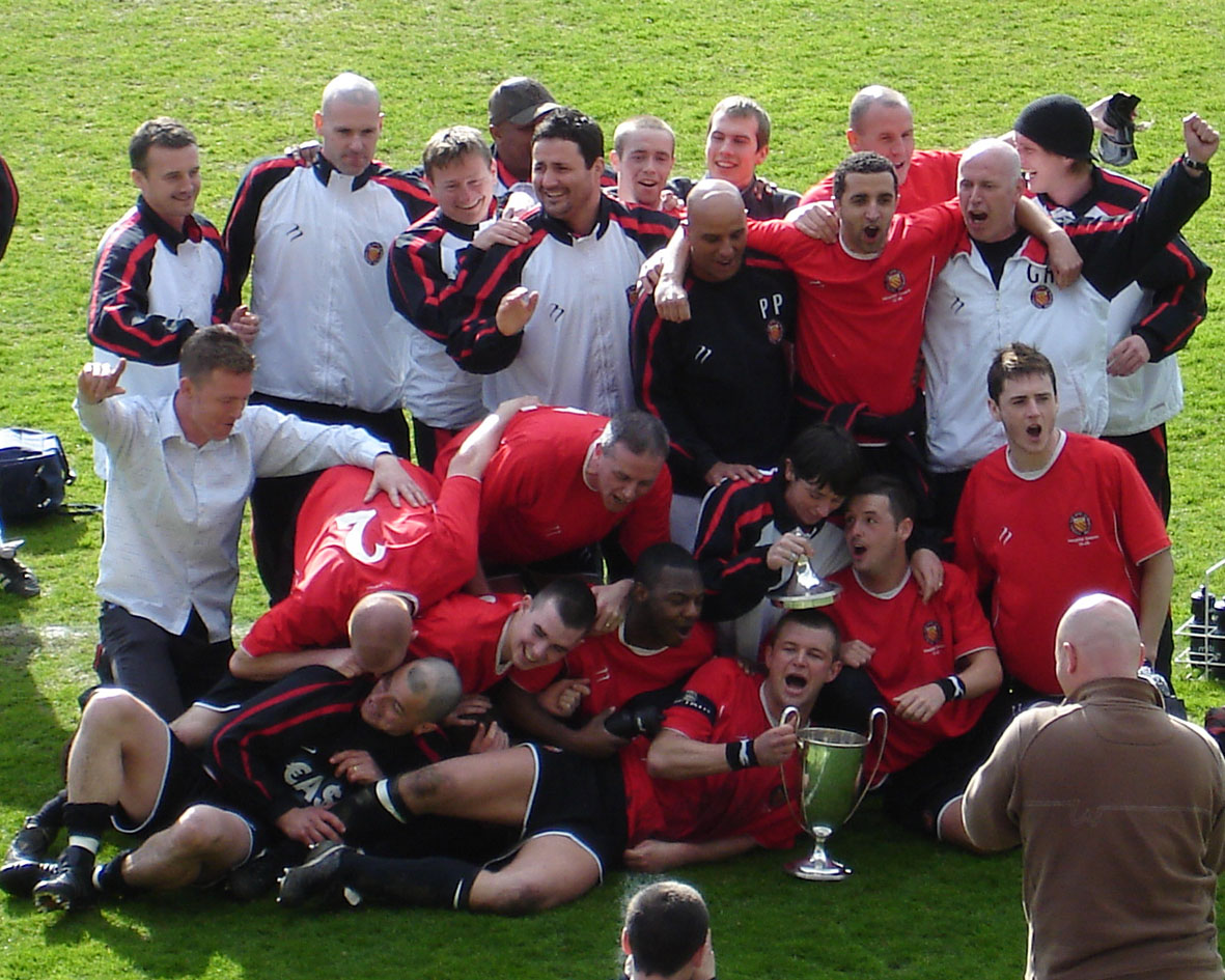 FC United celebrate becoming champions of the North West Counties Football league Division Two (now called Division One).